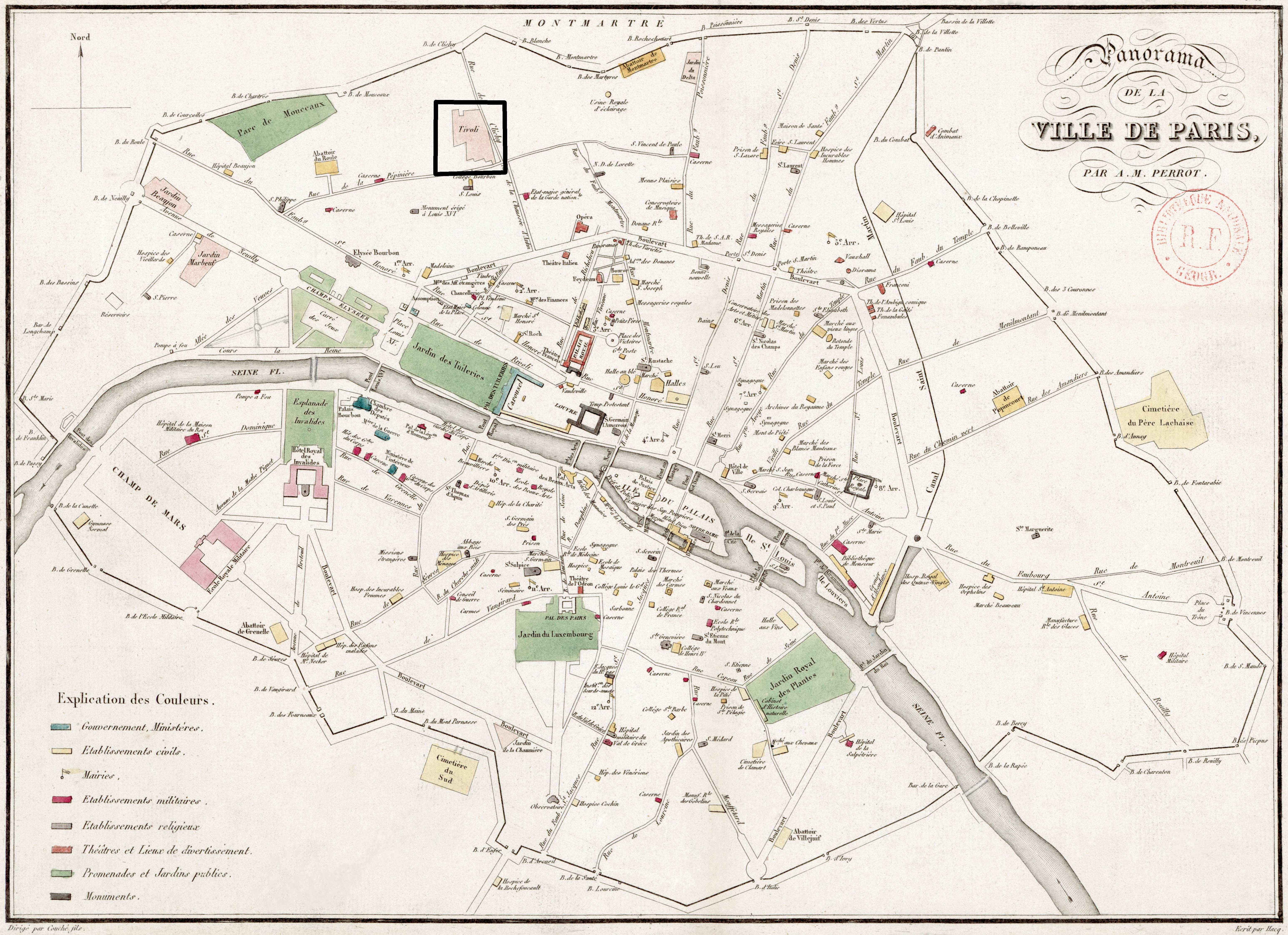 Tivoli garden, Paris, highlighted. Based on the Map (38 x 28 cm) showing Paris as it was in the first part of 1826 with the title: "Panorama de la ville de Paris / par A.-M. Perrot". The map indicates the locations of important buildings, promenades and gardens, and other monuments using a color code, which is explained in the legend in the lower left corner ("Explication des couleurs"). North is up. The scale is not shown.